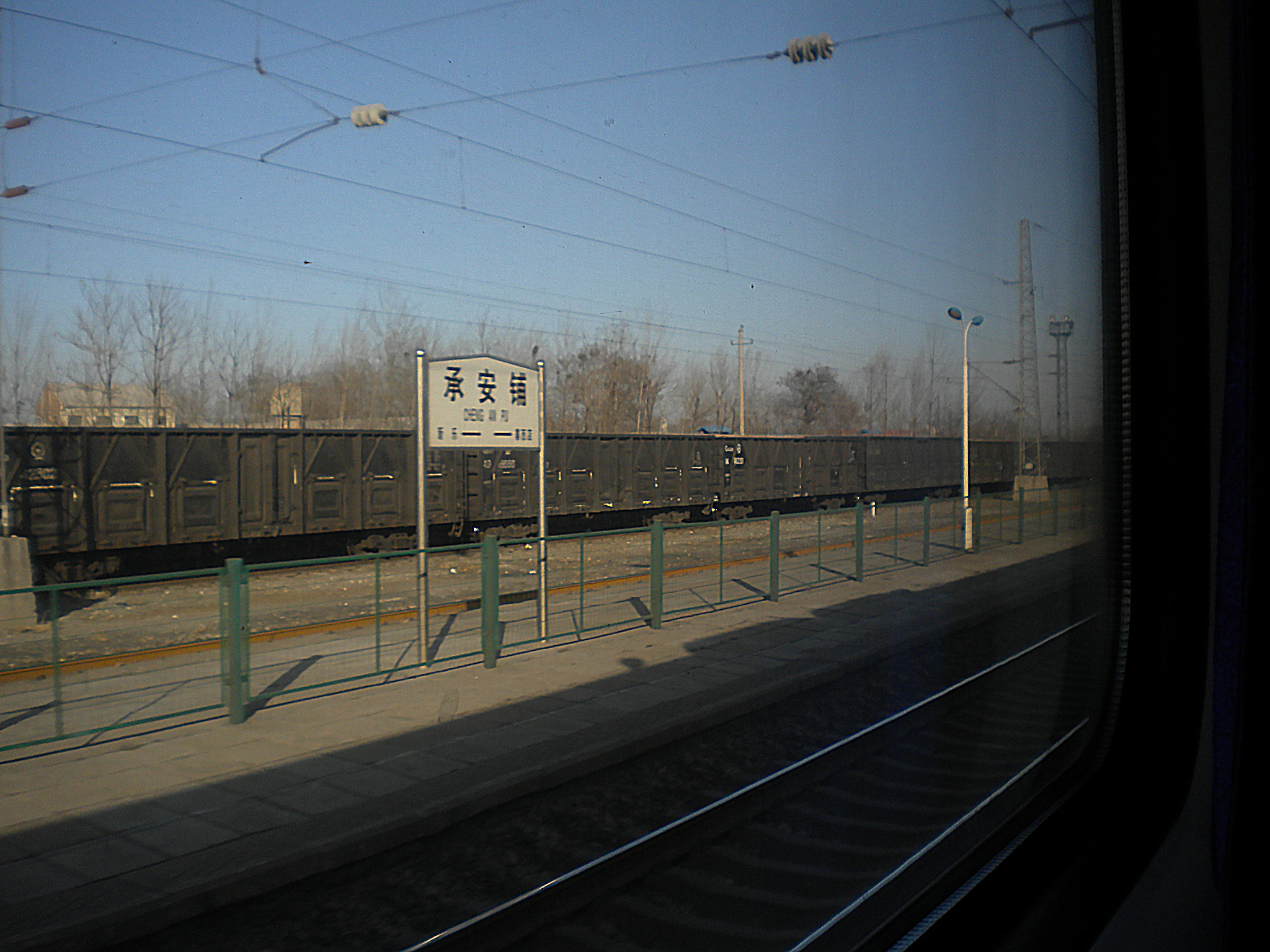 Taken from T61 Beijingxi-Kunming train.